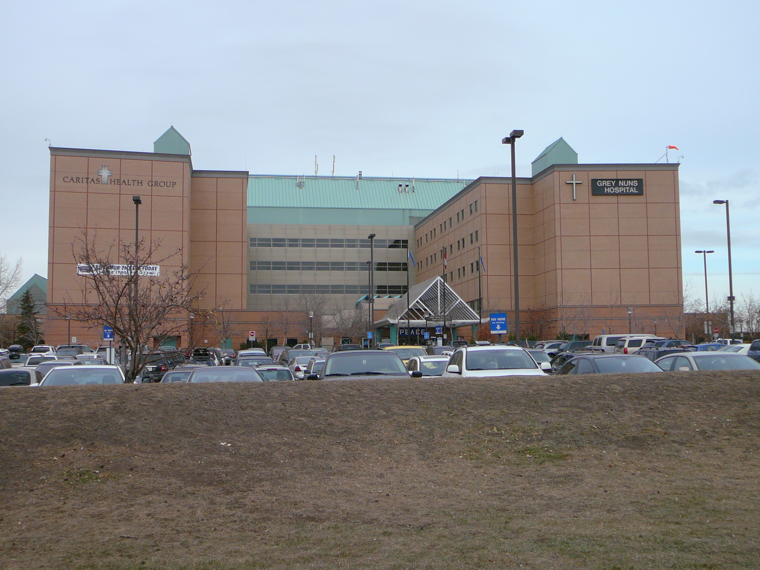 The Grey Nuns Community Hospital in the city of Edmonton, Canada